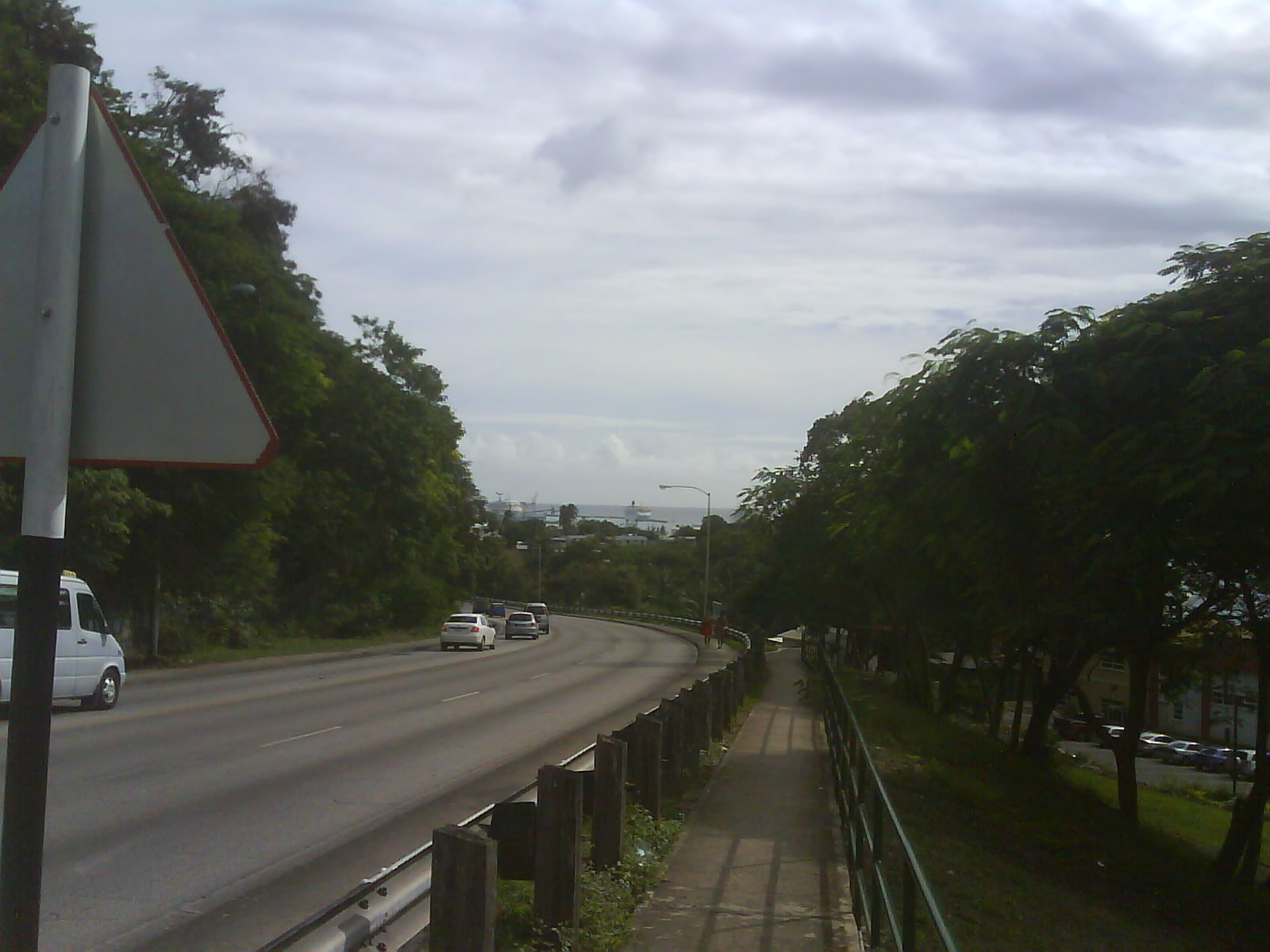 A portion of University Drive heading away from the Cave Hill Campus of the University of the West Indies. (In the distance the Deep Water Harbour in Bridgetown is visible.)